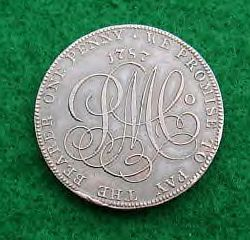 Parys Mountain Penny, mine token